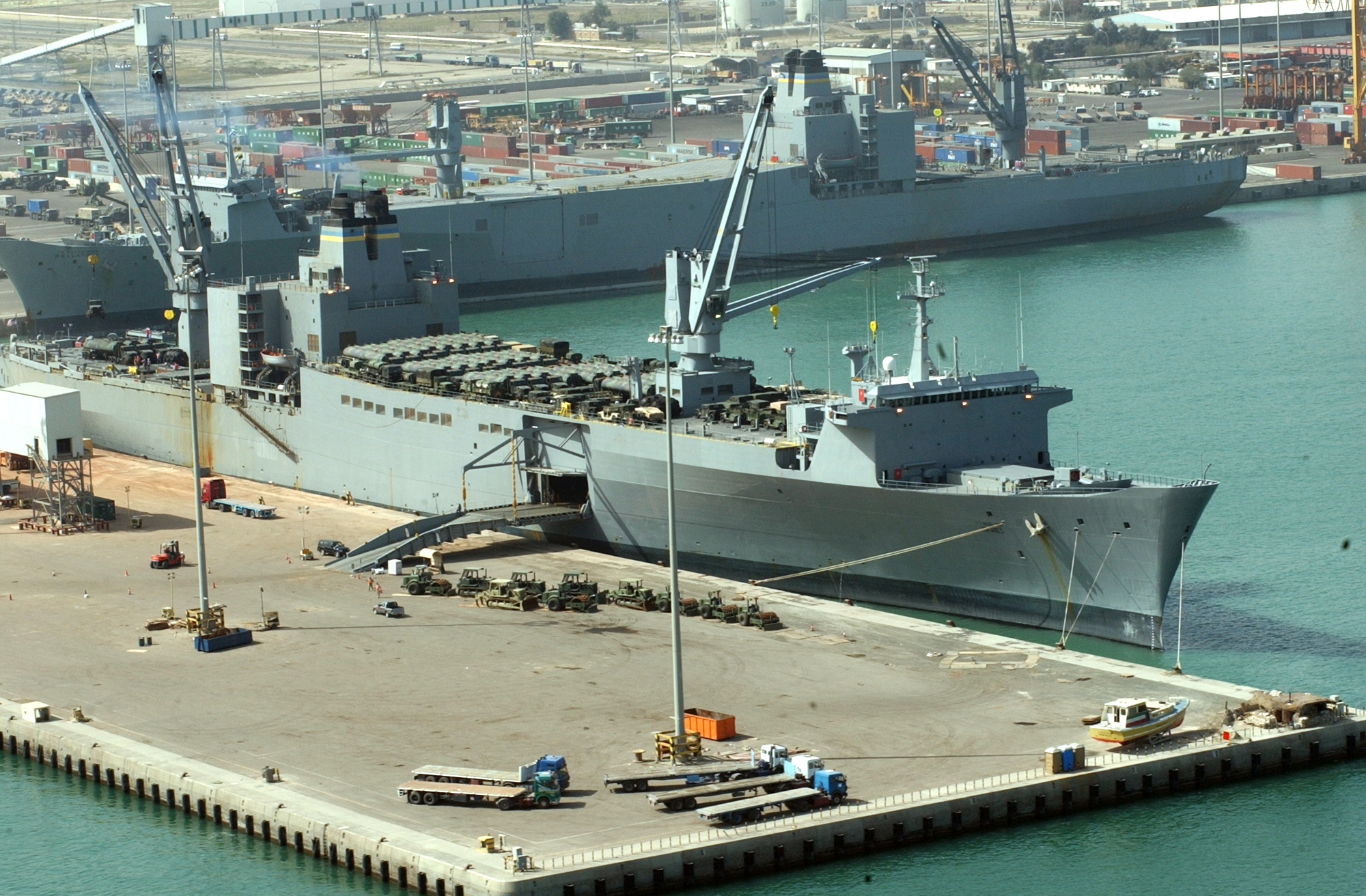 Ash Shuaybah, Kuwait (Mar. 1, 2004) - Aerial view of the port of Ash Shuaybah, Kuwait. Several U.S. Military Sealift Command (MSC) supply ships are shown moored at the facility. MSC is providing the Department of Defense with strategic sealift and ocean transportation for all military forces participating in Operation Iraqi Freedom. U.S. Navy photo by Journalist 3rd Class Eric L. Beauregard (RELEASED)